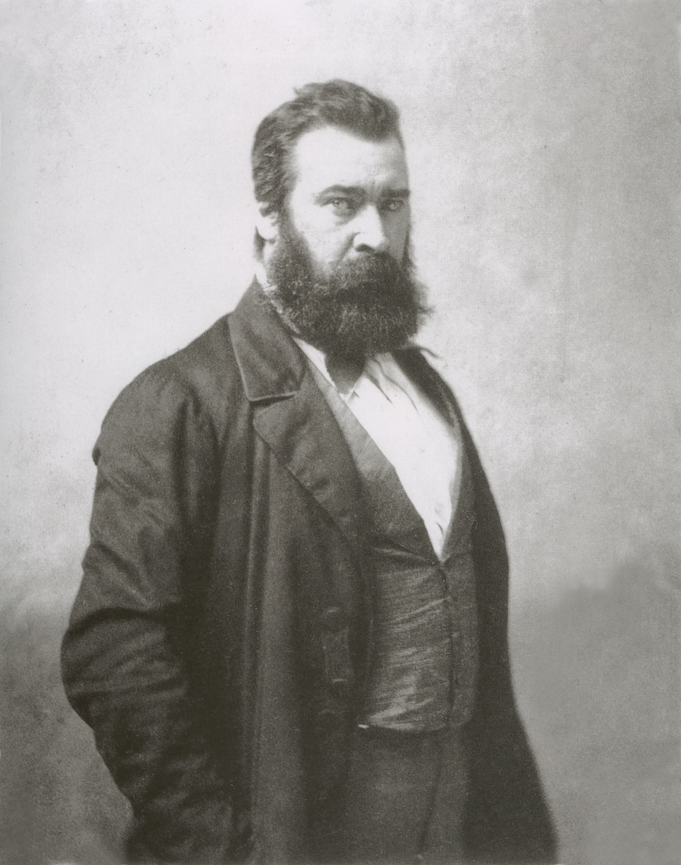 Jean-Francois Millet by Nadar